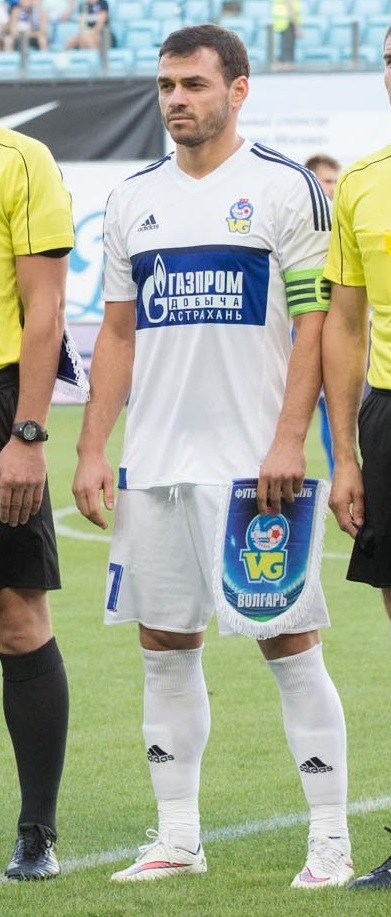 Elbrus Zurayev with FC Volgar Astrakhan in a game against FC Dynamo Moscow.